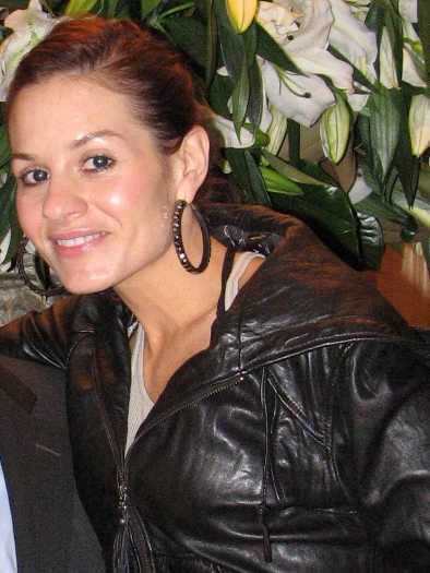 Kara DioGuardi on Grammy Briefing Weekend, in February 2010.